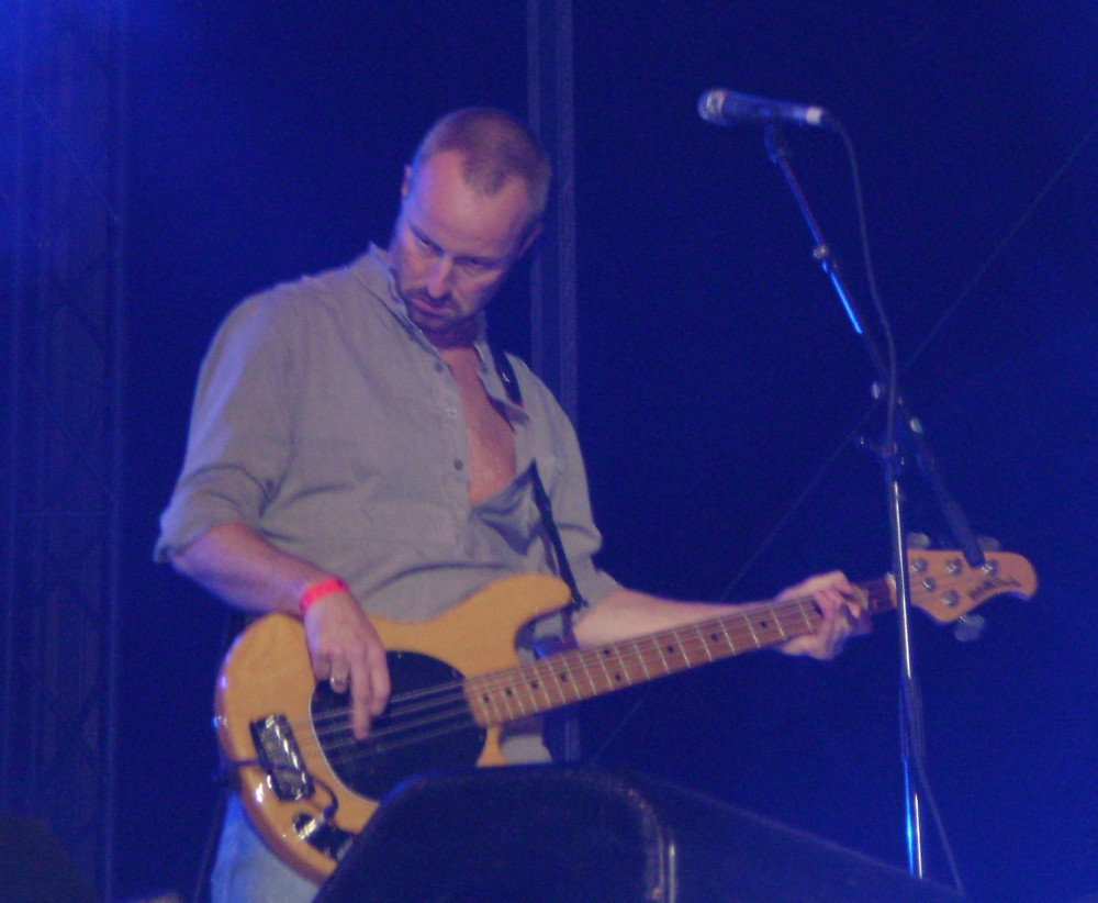 Peter Slager, bass guitar player of the the Dutch band Bløf, September 13, 2008